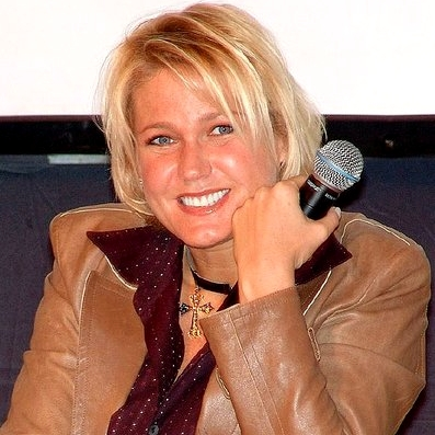 Brazillian TV celebrity Xuxa.